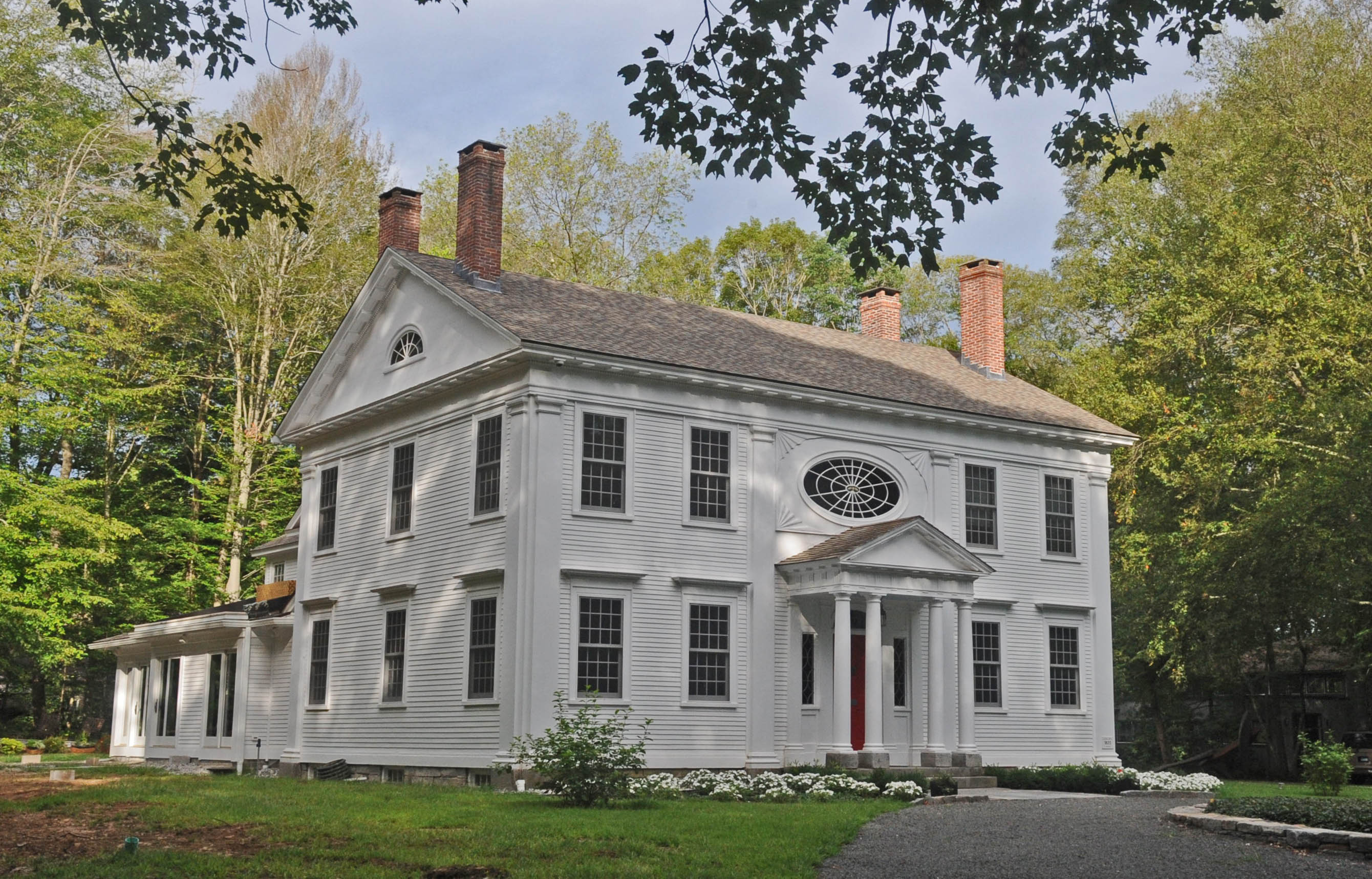 THE HOUSE WAS BUILT IN 1820 FOR ABRAM MITCHELL, A LOCAL MAN WHO APPARENTLY MADE A SMALL FORTUNE SPECULATING ON CONTINENTAL CURRENCY AFTER THE AMERICAN REVOLUTIONARY WAR. THE PRINCIPAL BUILDER WAS SAMUEL SILLIMAN, A LOCALLY WELL-KNOWN MASTER CARVER. THE HOUSE BELONGED TO MEMBERS OF THE LOCALLY PROMINENT PRATT FAMILY FOR MANY YEARS